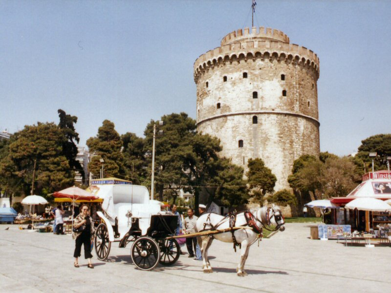 The White Tower in Thessaloniki.